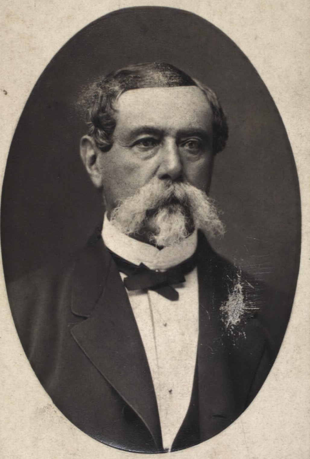 Danish general, politician, Minister of the Interior, Minister of War and the Royal Navy, MP Wolfgang Haffner (1810-1887)